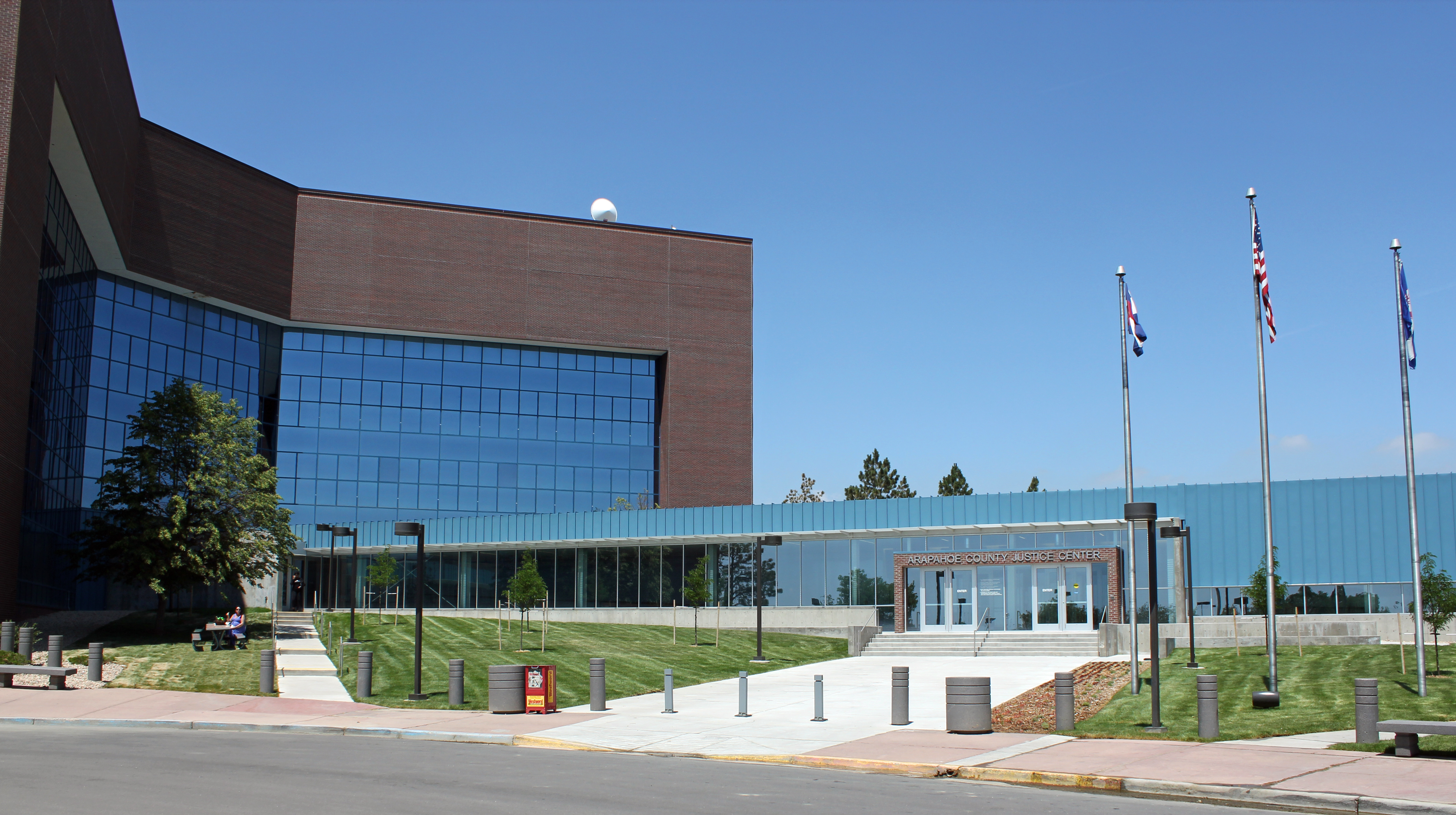 The Arapahoe County Justice Center (courthouse), located at 7325 South Potomac Street in the Dove Valley section of Centennial Colorado. The center is part of Colorado's 18th Judicial District.